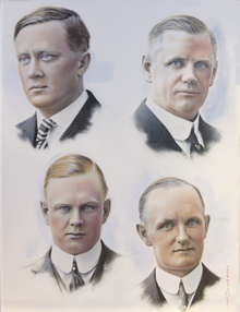 Harley-Davidson founders